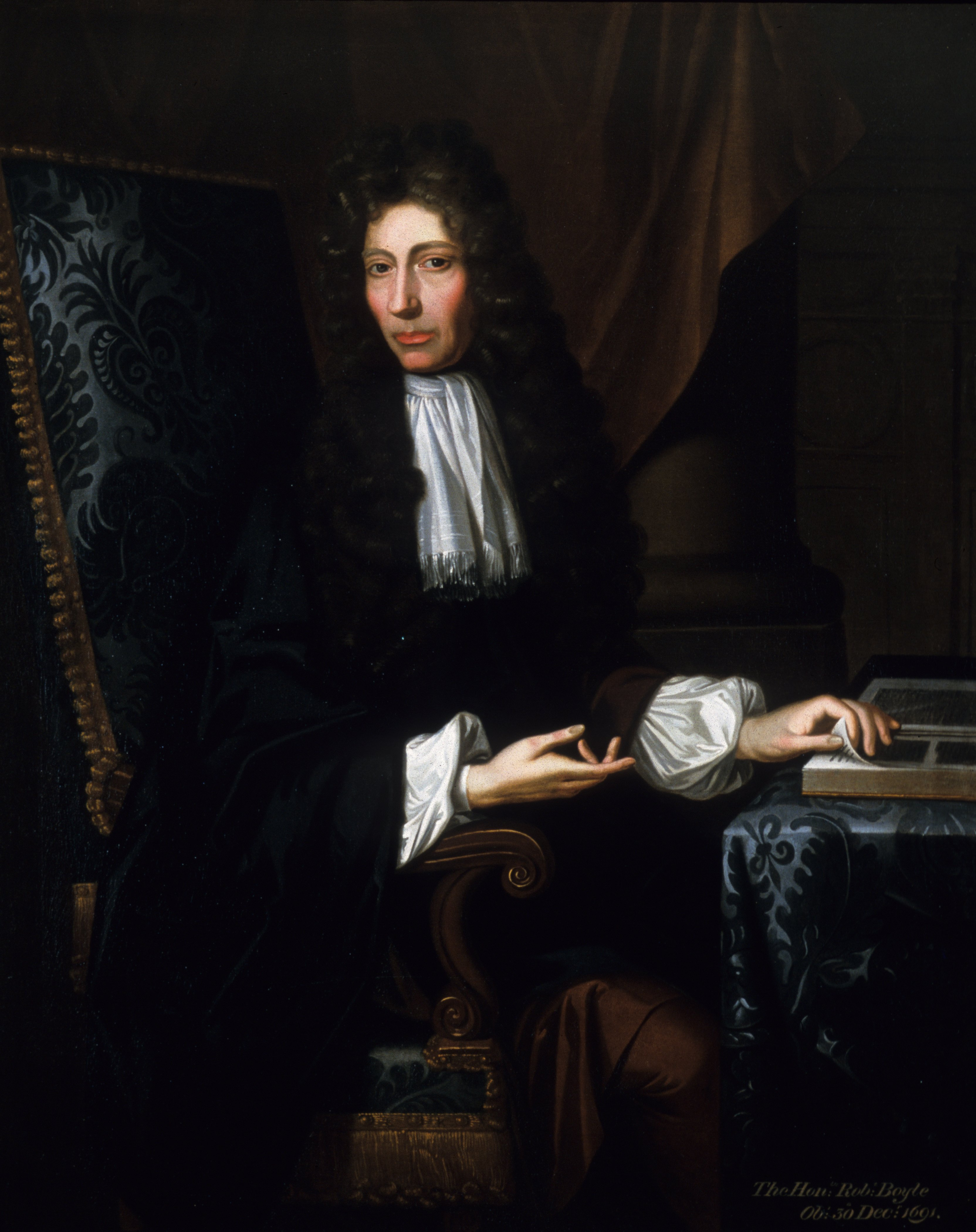 Robert Boyle (1627–1691), an Irish-born English scientist, was an early supporter of the scientific method and founder of modern chemistry. Boyle is known for his pioneering experiments on the physical properties of gases, his authorship of the Sceptical Chymist, his role in creating the Royal Society of London, and his philanthropy in the American colonies. In the painting, Boyle is shown in long curled wig, white neck cravat, and sleeves, and black coat; seated facing right with head turned three quarters left, looking out; turns page of book with left hand and gestures toward book with right; upholstered chair and tablecloth in silver brocade.